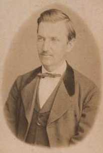 Niels Christian Rom (1839-1919)